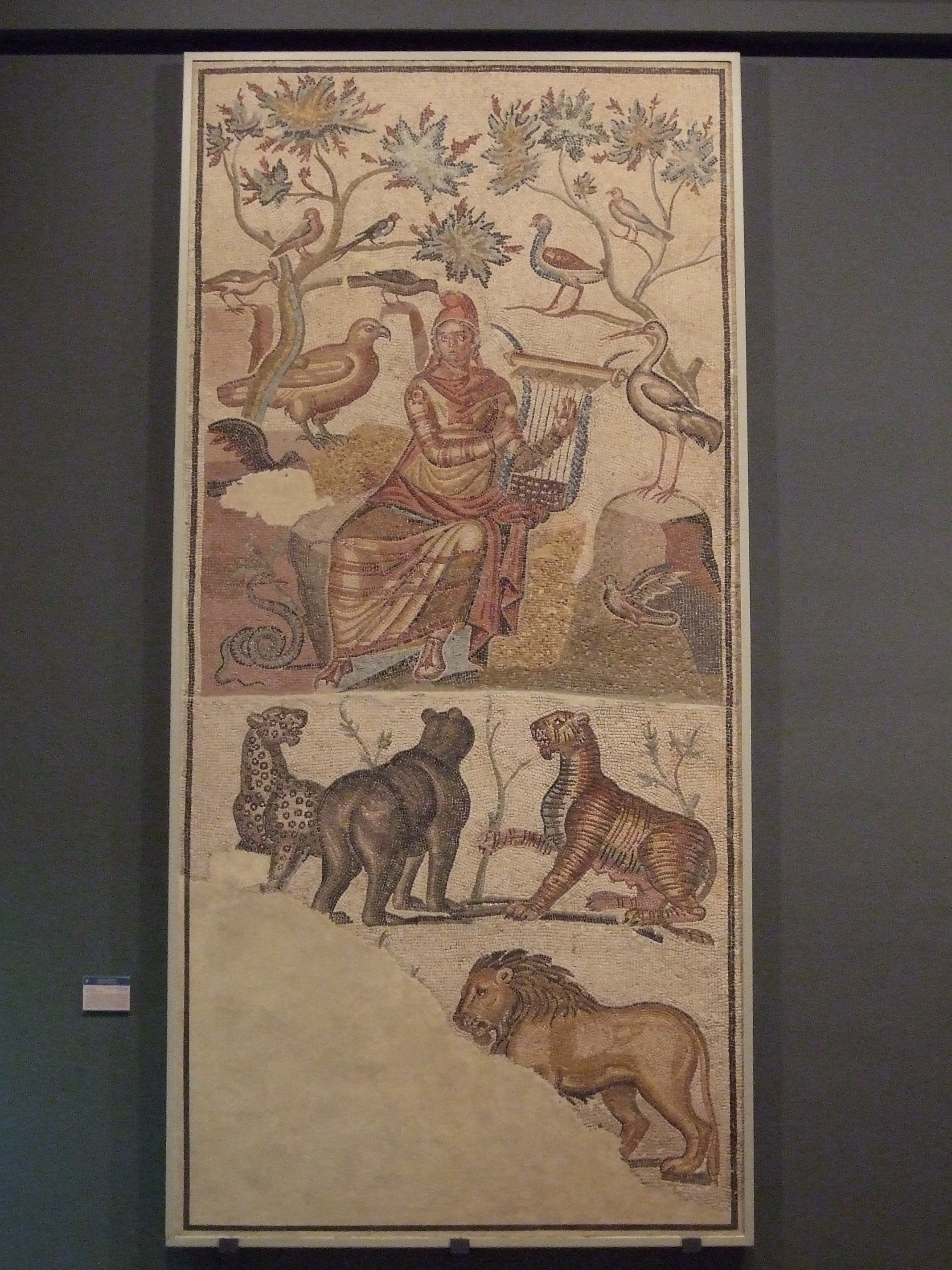 Orpheus (2nt to 3rd c. AC). Caesaraugusta. Mosaic